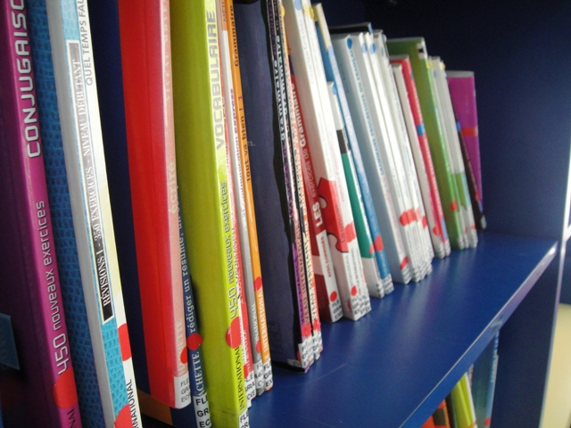 Alliance française in Taiwan Media library textbooks